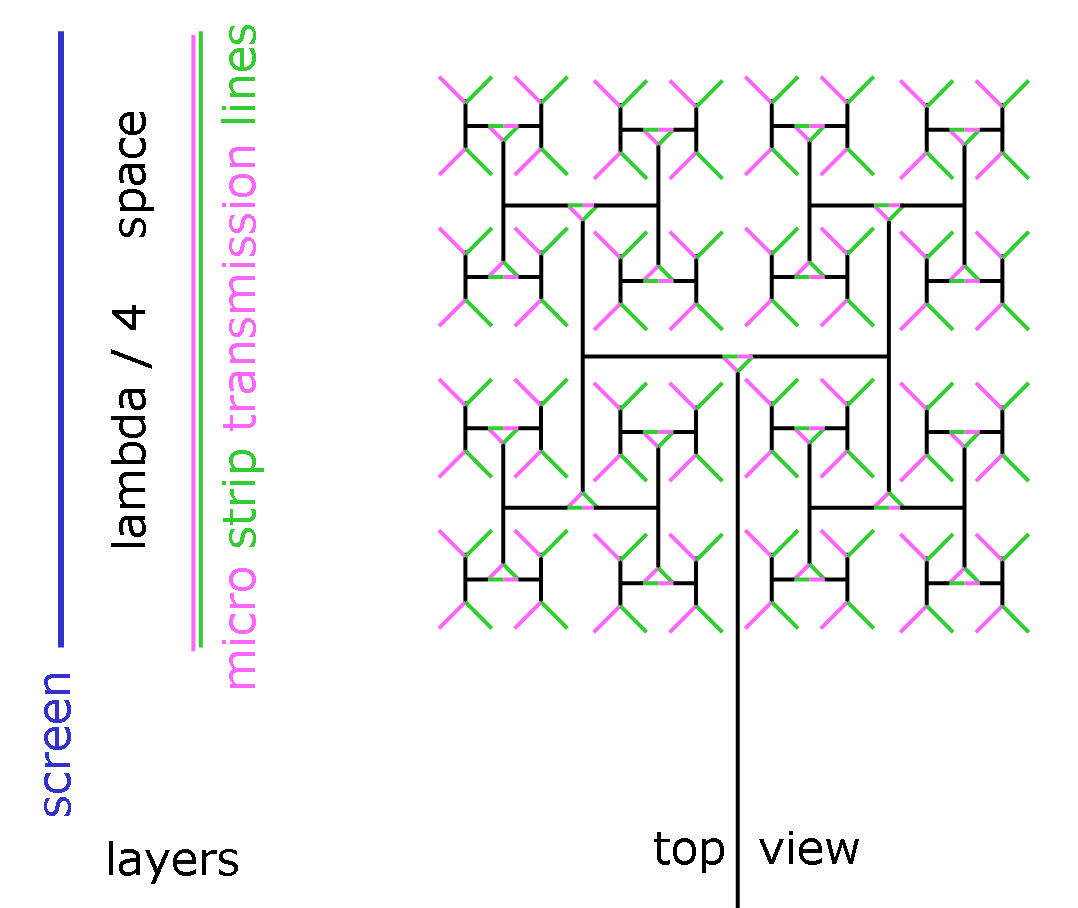 Flat panel antenna schematic drawing showing inner working. Should be remade in SVG. Not very original, but I do not know the references from the top of my head.